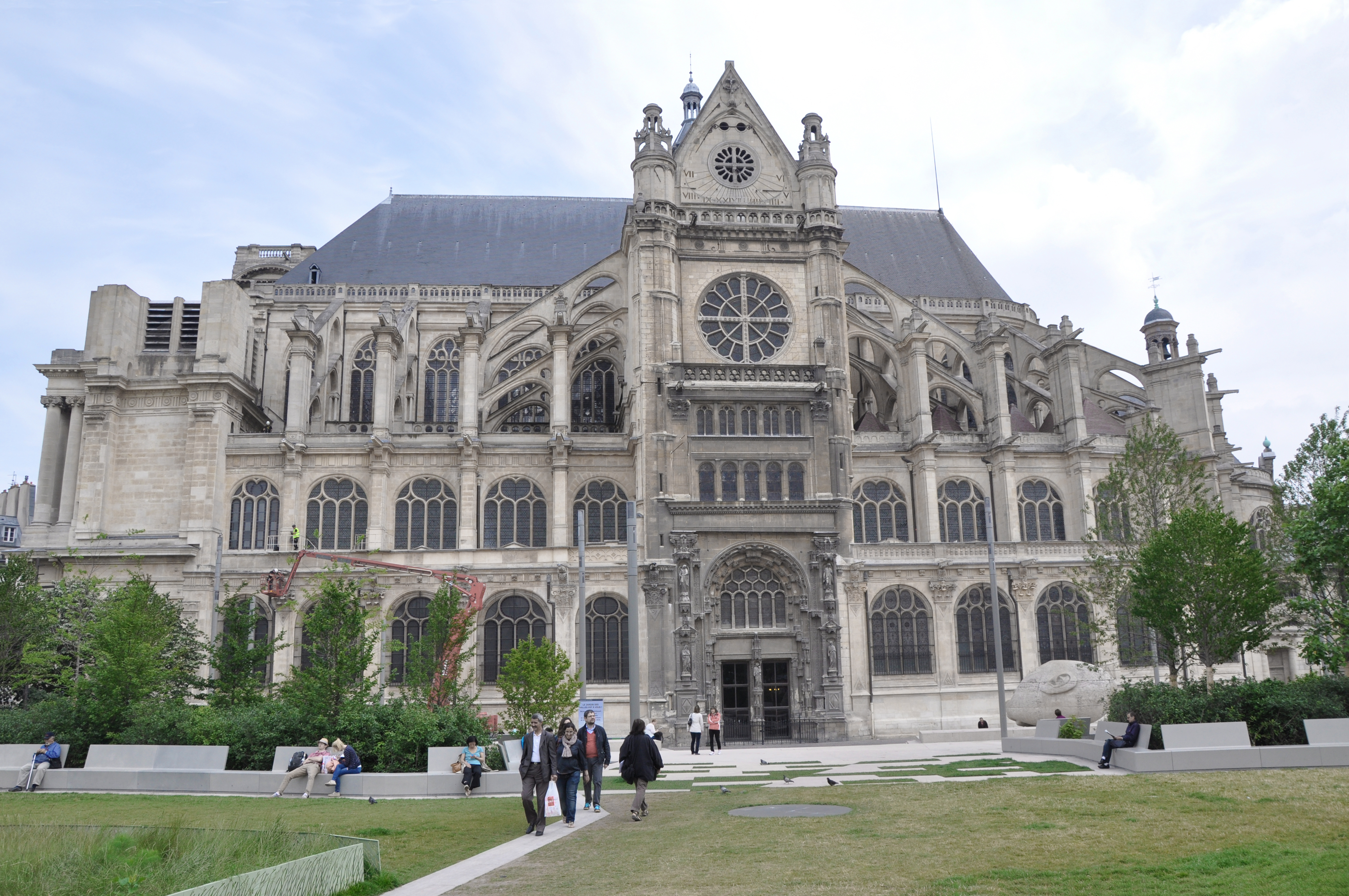 Église Saint-Eustache (Paris)